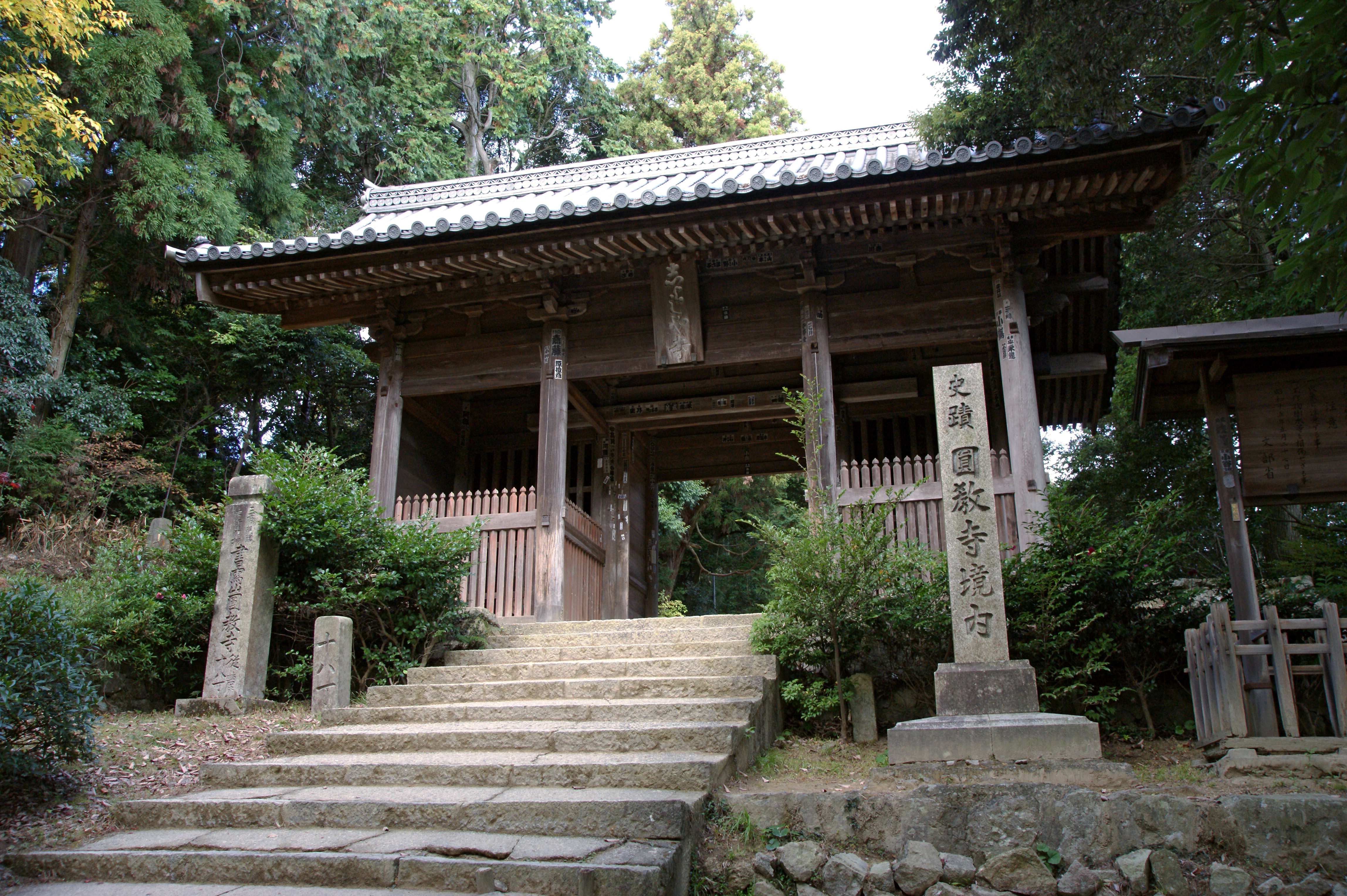 Engyoji, Himeji, Hyogo prefecture, Japan